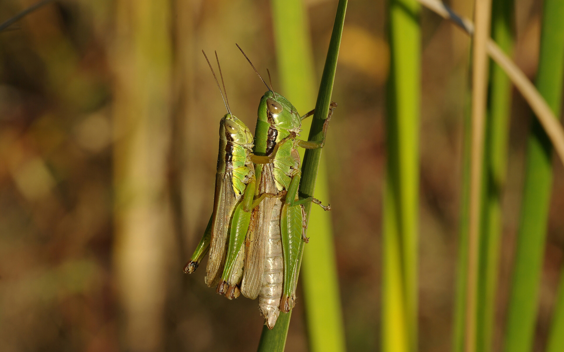 Locust. Female (right) and male (left). This picture was taken in Osaka (Japan) at sunset.